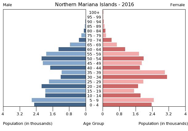 The population pyramid of the Northern Mariana Islands illustrates the age and sex structure of population and may provide insights about political and social stability, as well as economic development. The population is distributed along the horizontal axis, with males shown on the left and females on the right. The male and female populations are broken down into 5-year age groups represented as horizontal bars along the vertical axis, with the youngest age groups at the bottom and the oldest at the top. The shape of the population pyramid gradually evolves over time based on fertility, mortality, and international migration trends.